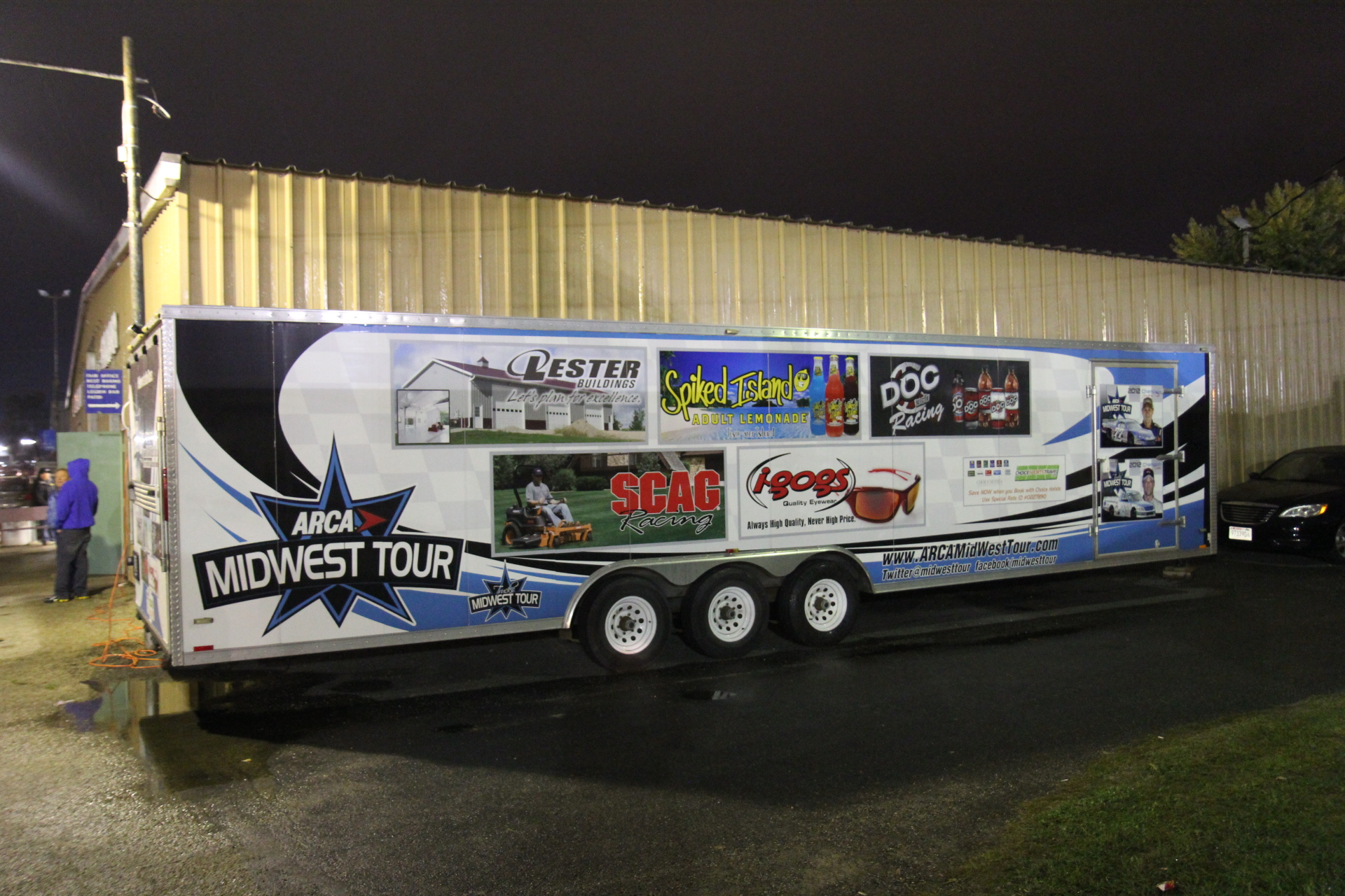 The trailer for the ARCA Midwest Tour at the Oktoberfest race weekend at the La Crosse Fairgrounds Speedway.